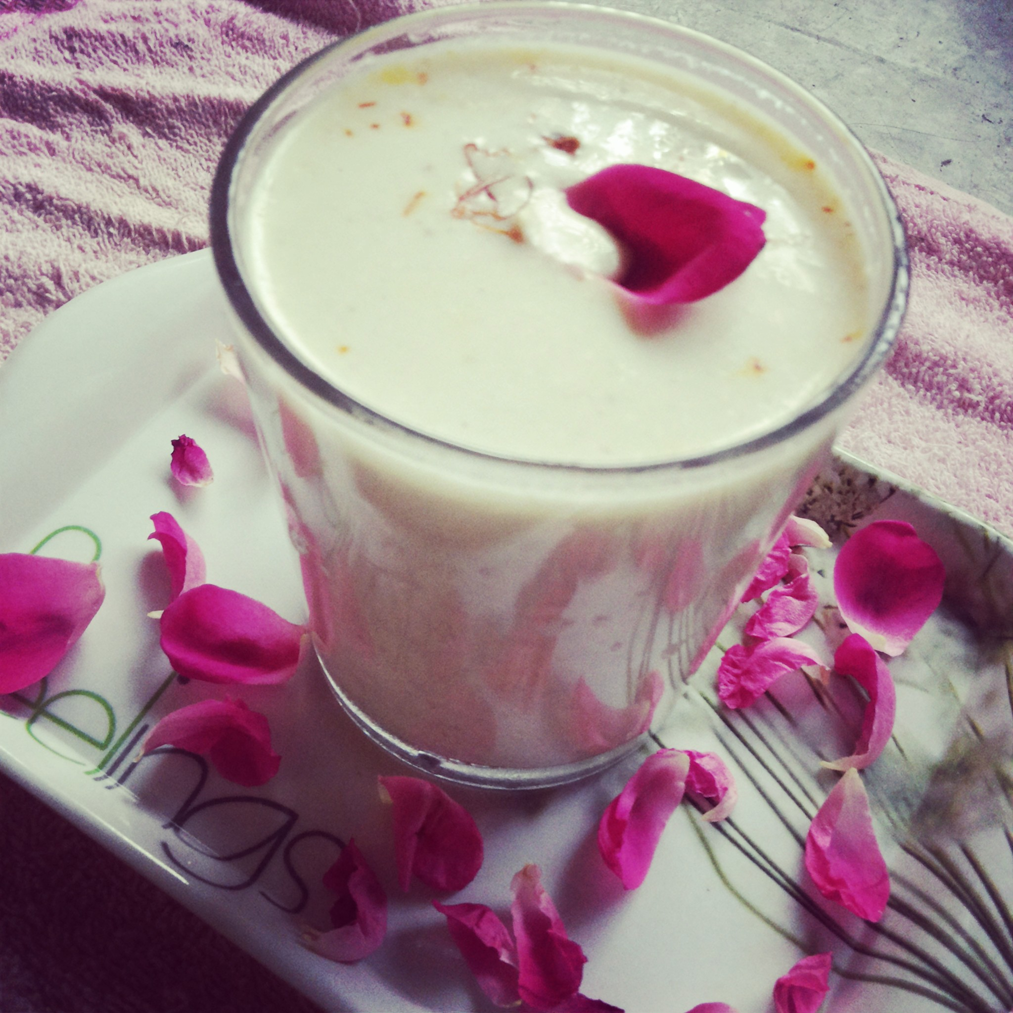 This is a very famous drink in North India. It is prepared on the day of Holi.